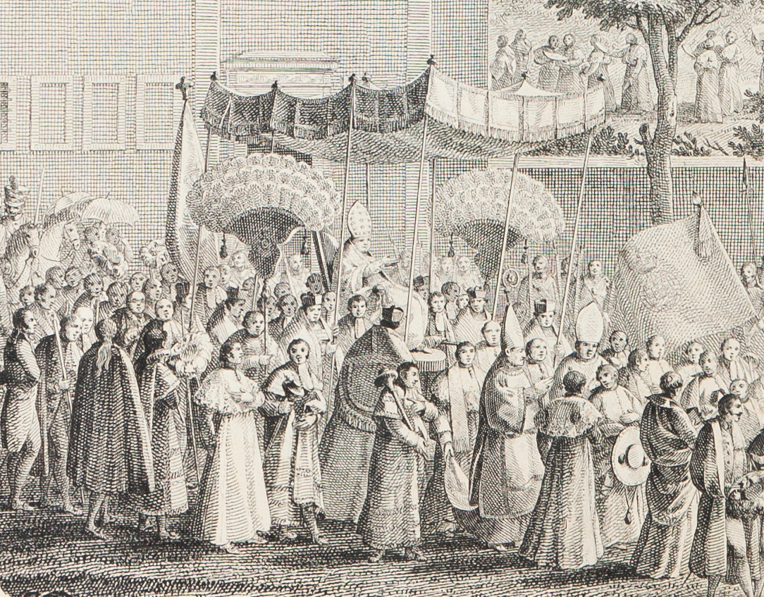 Engraving, dated 1824, with a depiction of the solemn entry of Carlos I, Cardinal-Patriarch of Lisbon, in the city in 1823, following the counter-revolutionary Vilafrancada uprising. It is inscribed:"To the Magnanimous and Immortal King of Portugal, Brazil, and the Algarves, the Lord John VI is dedicated this depiction of the grandiose and for all time memorable entrance in Lisbon of the Most Eminent and Most Reverend Cardinal Patriarch Carlos I, reinstated in his dignity of patrarch on the 18th of August 1823, having been led in procession from the Royal Monastery of Our Lady of the Conception of Arroios to the Royal Chapel in Bemposta Palace, where, with the Court, Their Majesties and Highnesses were awaiting him. Offered by Ambrosio Ribeiro dos Sanctos".